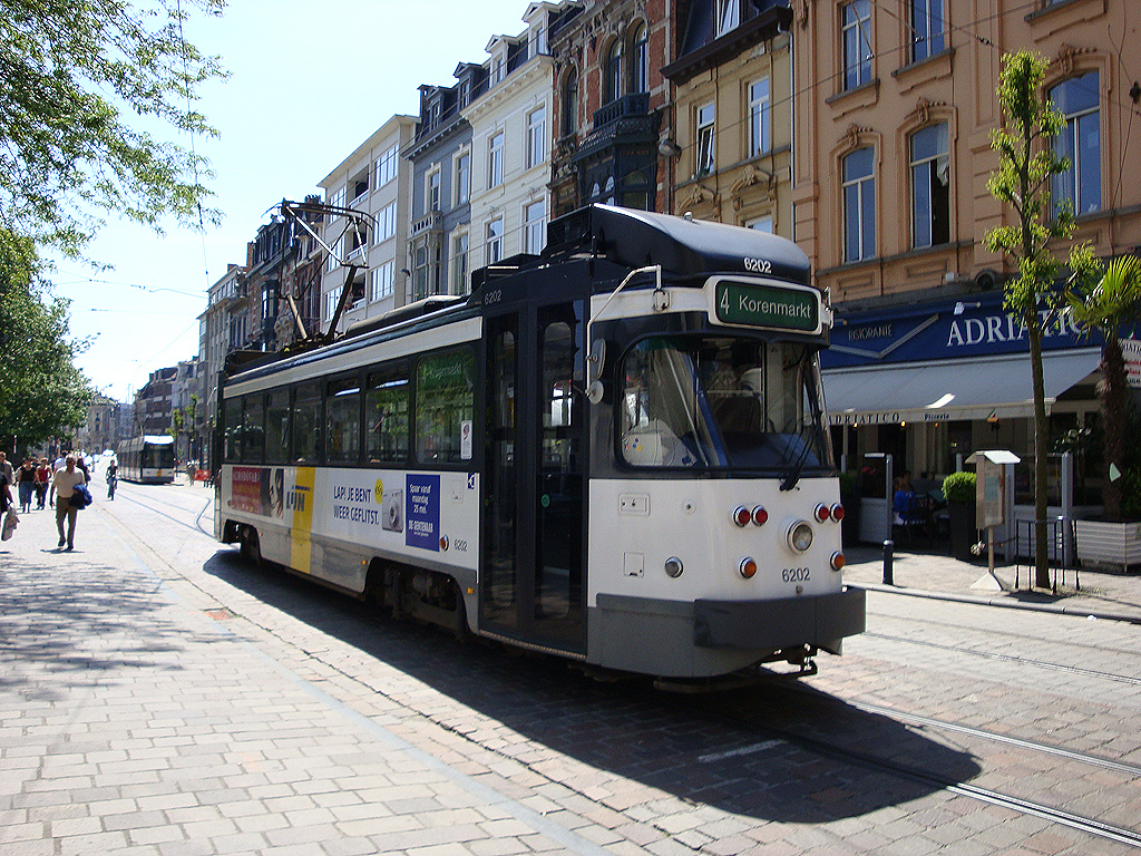 Euro PCC tram in Ghent, Belgium.